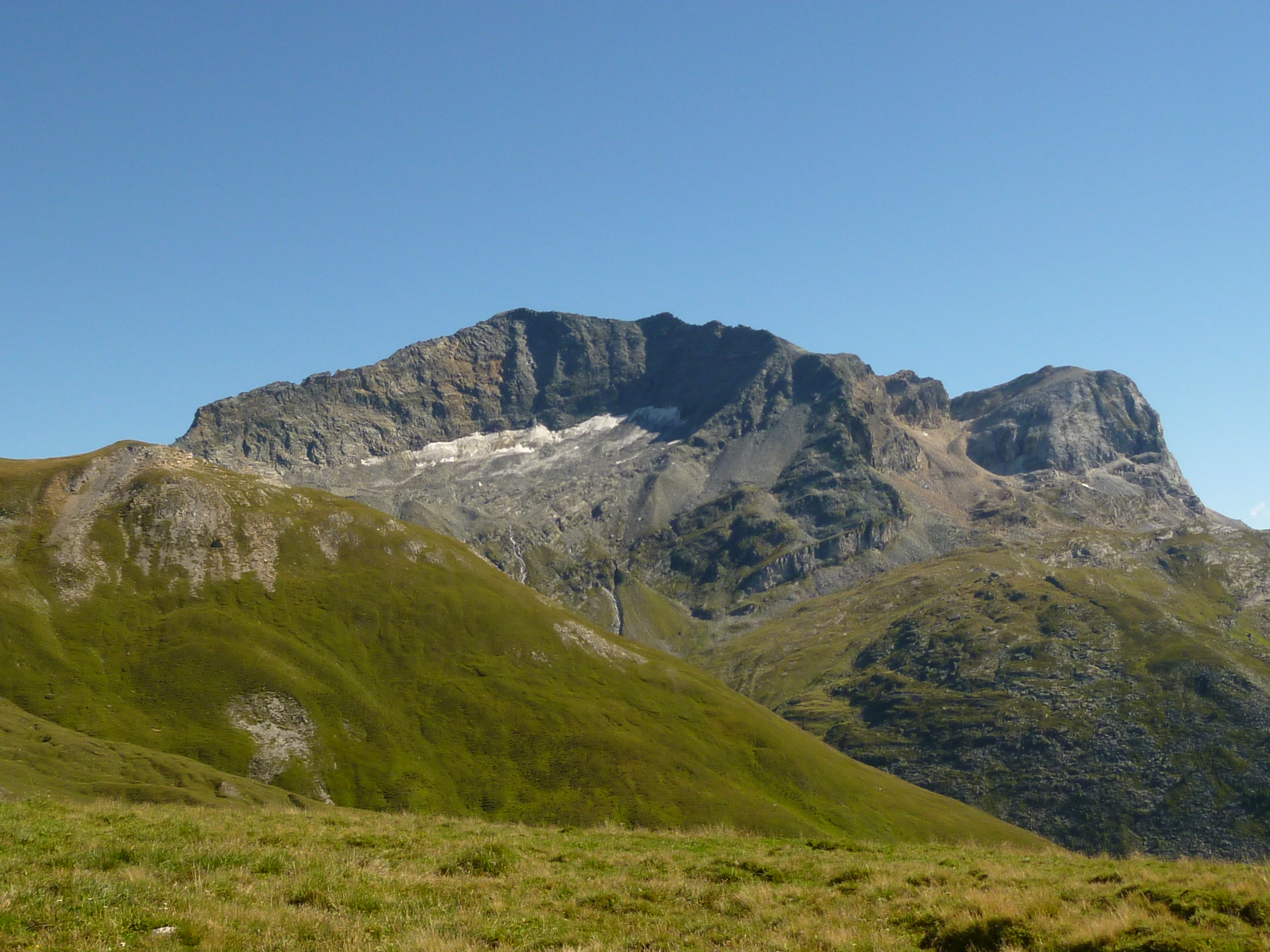 Piz Grisch from Alp Andies, Ferrera, Grison, Switzerland